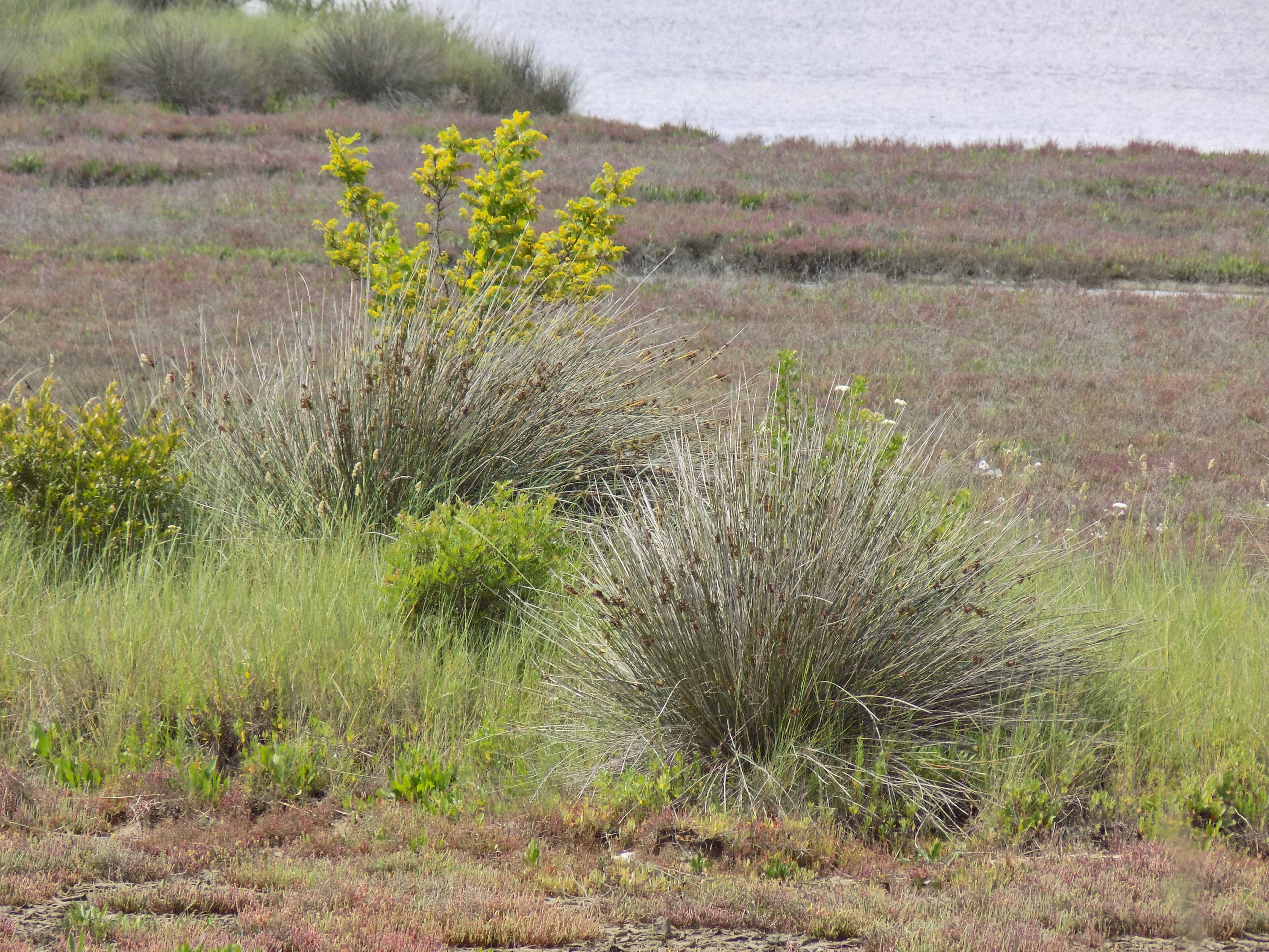 Special Nature Reserve "Solila", Tivat Municipality, Montenegro - sea rush (Juncus maritimus)